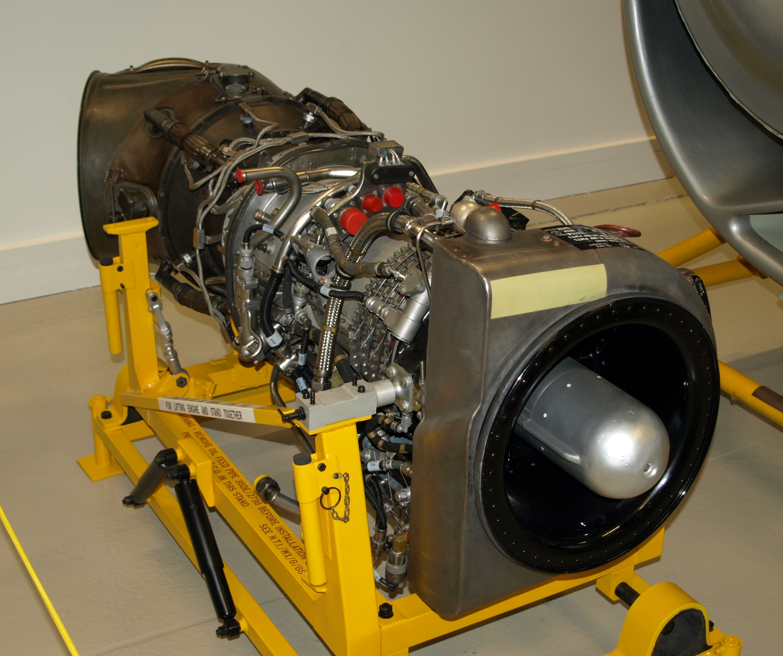 Rolls-Royce Gnome turboshaft engine